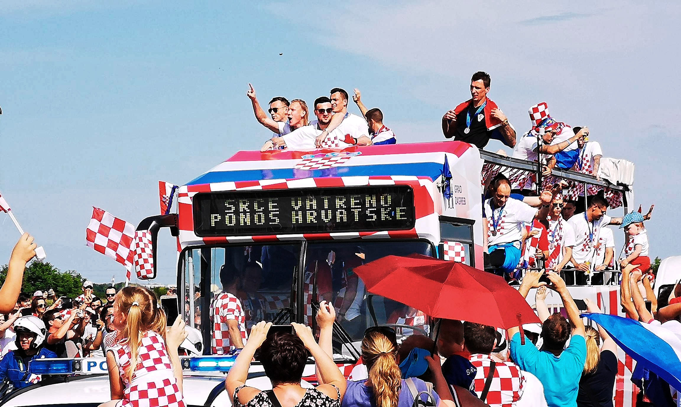 Arrival of Croatian natonal football team, World Cup 2018 silver medal winners in Zagreb /taken with Huawi P20 Pro /